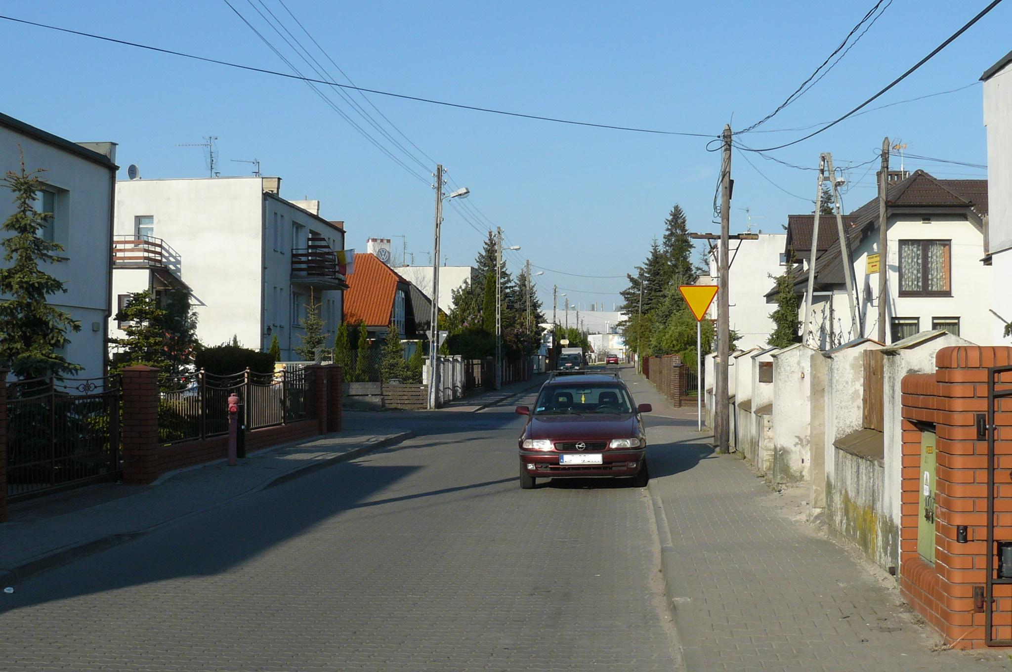 Poznan, Msibora Street.